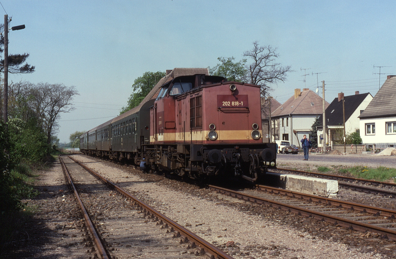 Seen at the terminus station of Wörlitz which serves a nearby popular park. Operated as a branch from Dessau Wörlitzer Bf (adjacent to Dessau Hbf), services were in the hands of Deutsche Bahn until 1998. Three years later the line was taken over by private operator Dessauer Verkehrs- und Eisenbahngesellschaft (DVE) and nowadays operates in the high season. Since 2011, services at the Dessau end have been re-routed in to Hbf. On 4 May 1994, 202.818 is seen before running round on train 8042, 10:10 Dessau Wörlitzer Bf to Wörlitz.